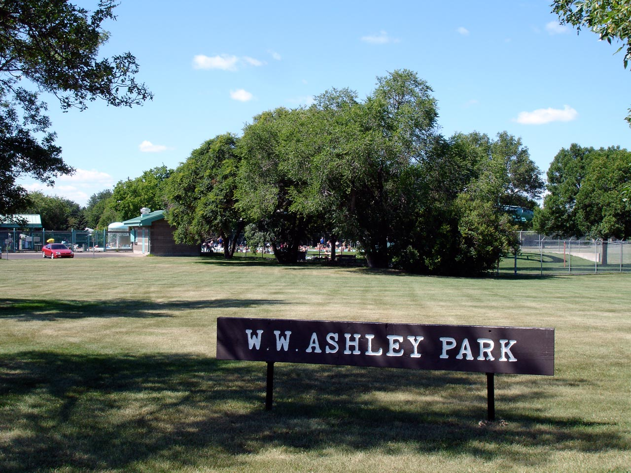 W.W. Ashley Park, a public park in the Haultain neighbourhood of Saskatoon, Saskatchewan, Canada.